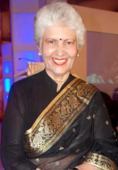 Shashikala at the audio release of 'From Sydney With Love'